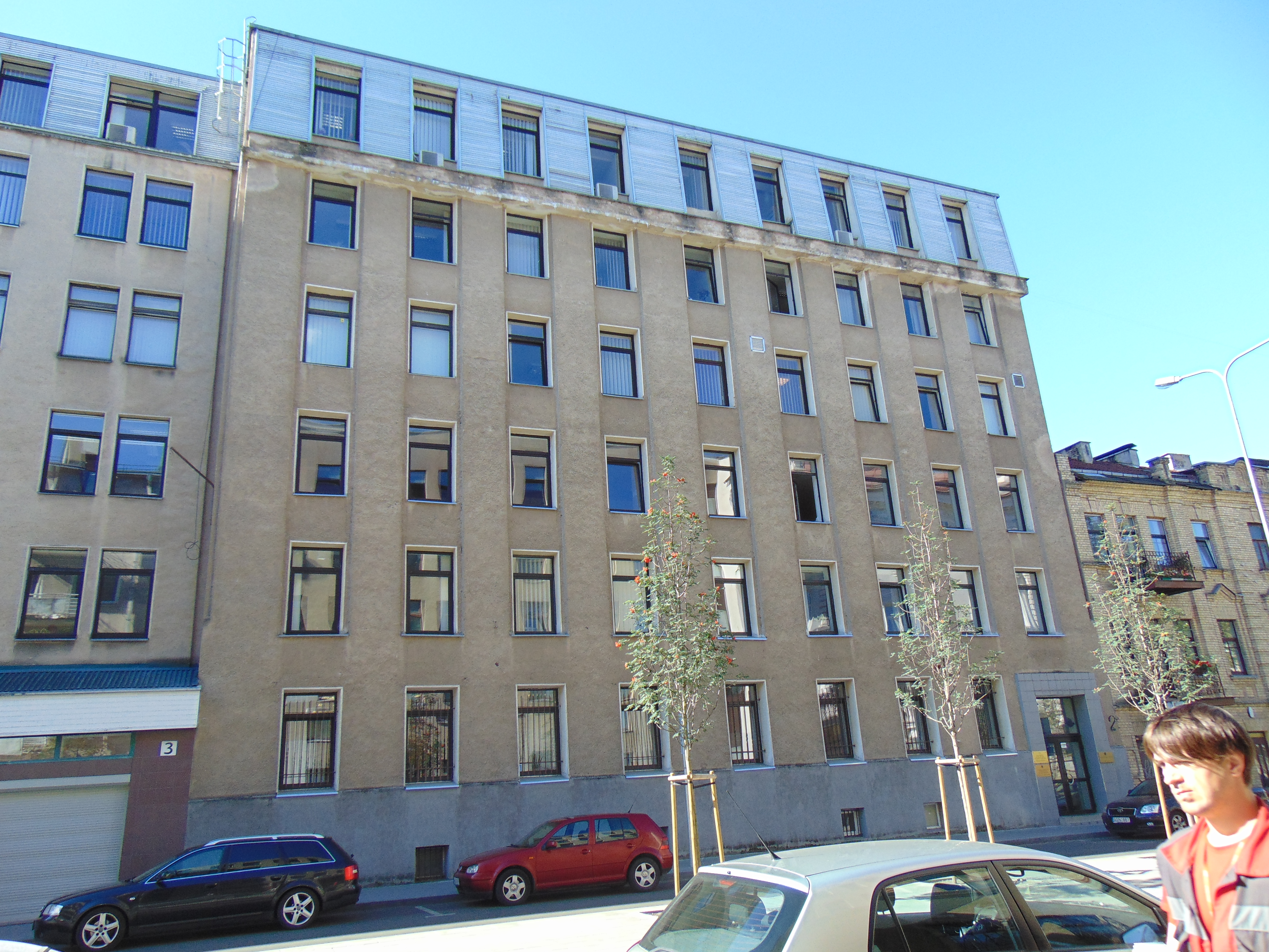 Financial Crime Investigation Service